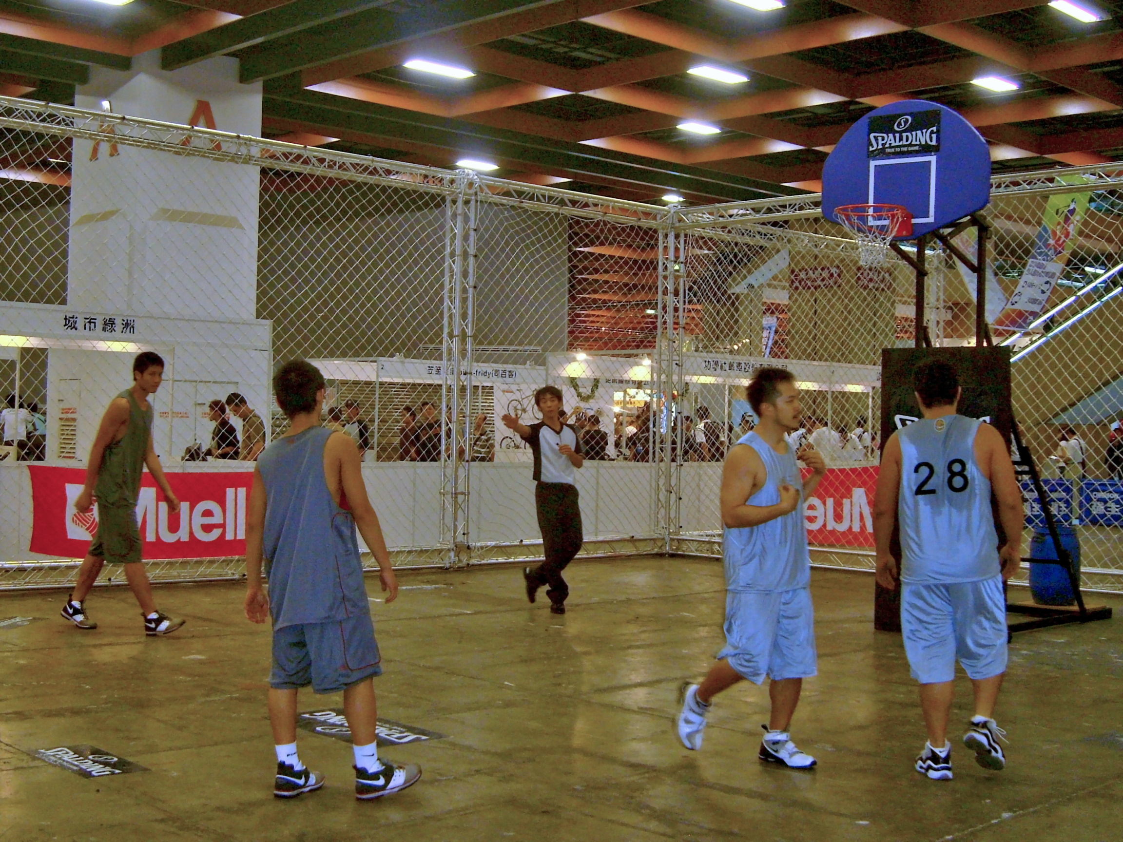 2008 Leisure Taiwan: 3-on-3 Basketball Tournament Arena.